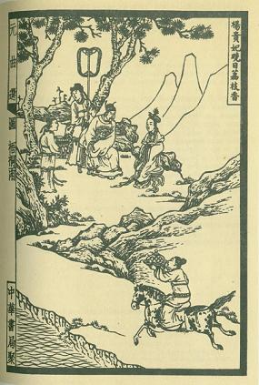 Image to Bai Renfu's Rain on the Parasol Trees (1617).